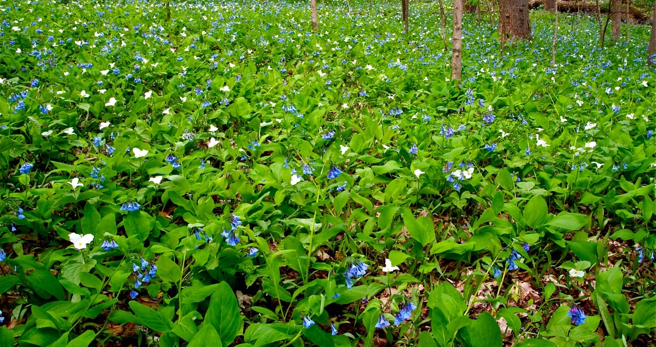 Bluebells and trilliums blooming on the Bluebell Preserve, owned by the Athens Conservancy